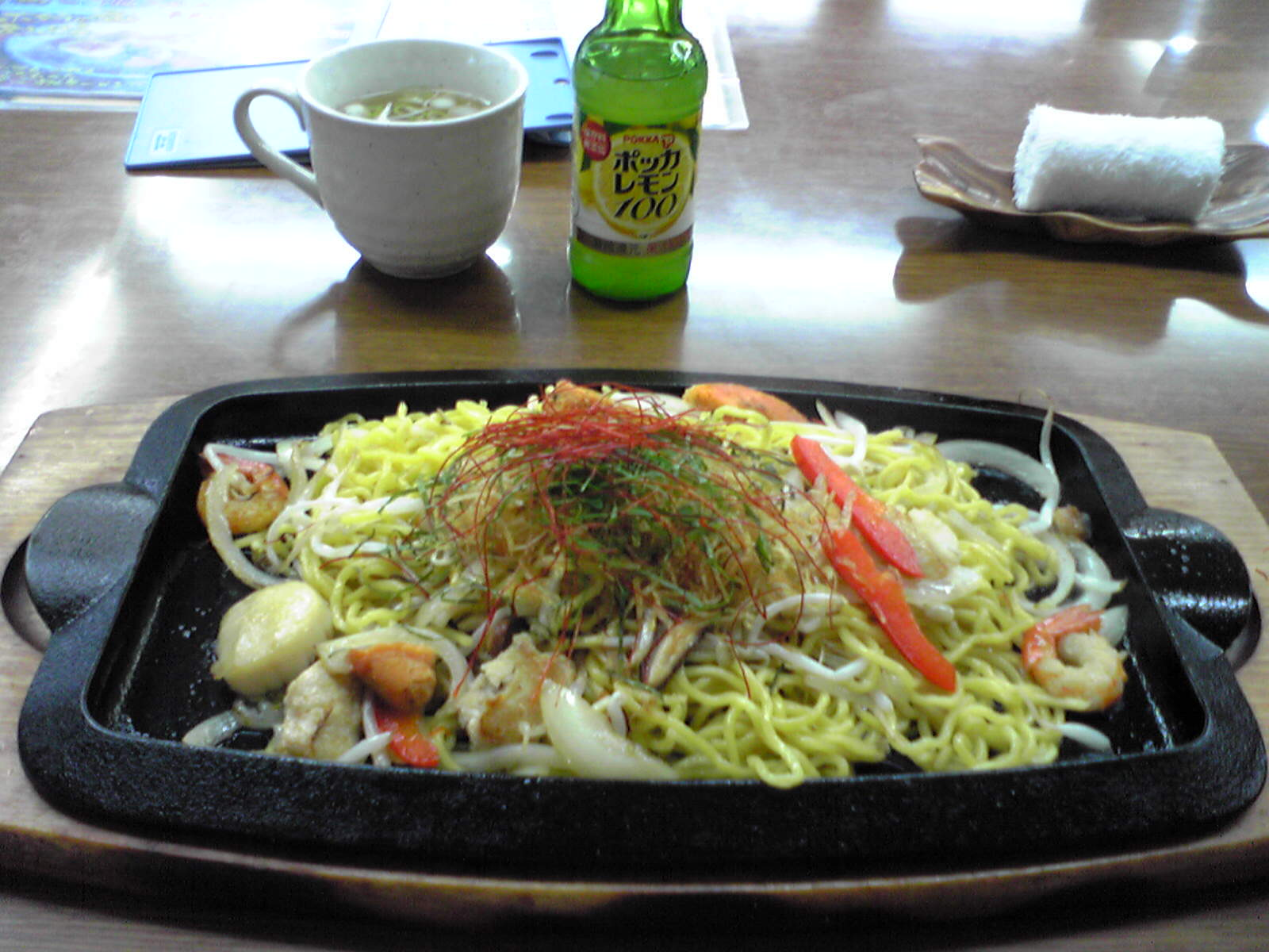 Okhotsk Kitami Sio-yakisoba